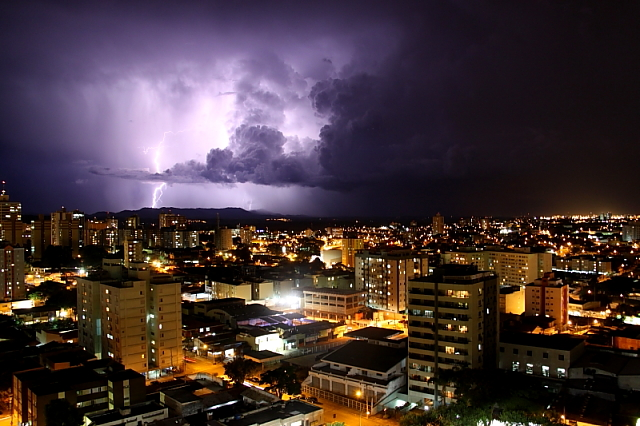 Thunderstorm in São Paulo city, Brazil.